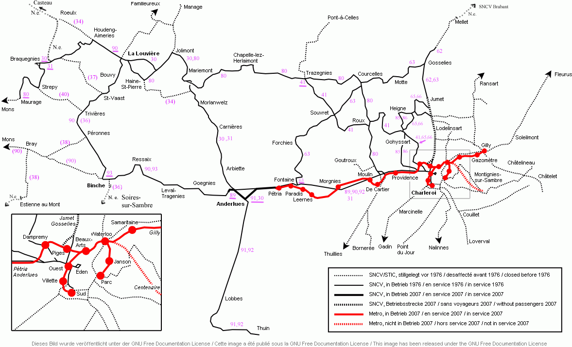 SNCV Charleroi Network between 1976 and 2005. Is now part off the TEC network. SNCV no longer exist and is split upp. Linenumbers used in 1982. old linenumbers